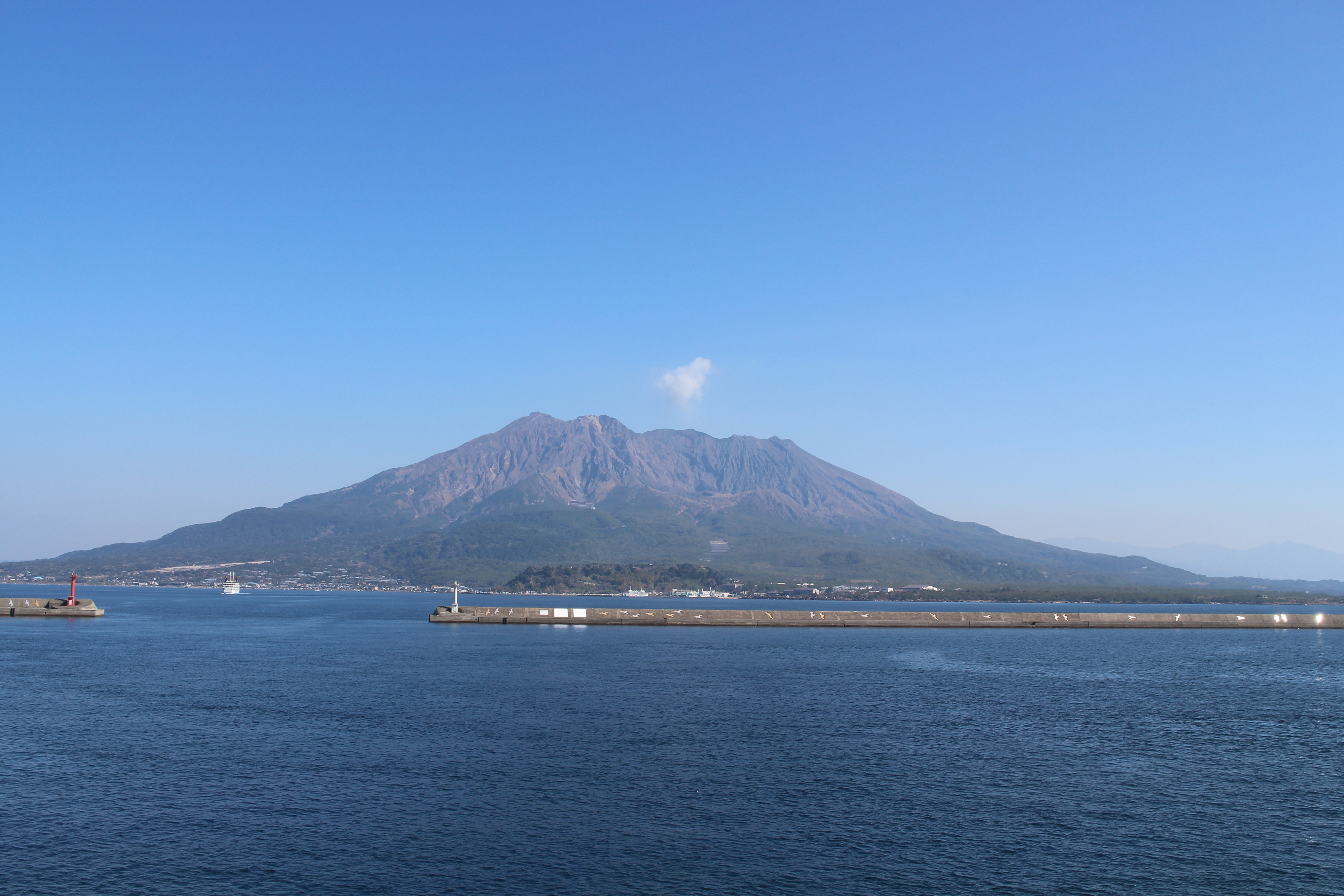 Sakurajima